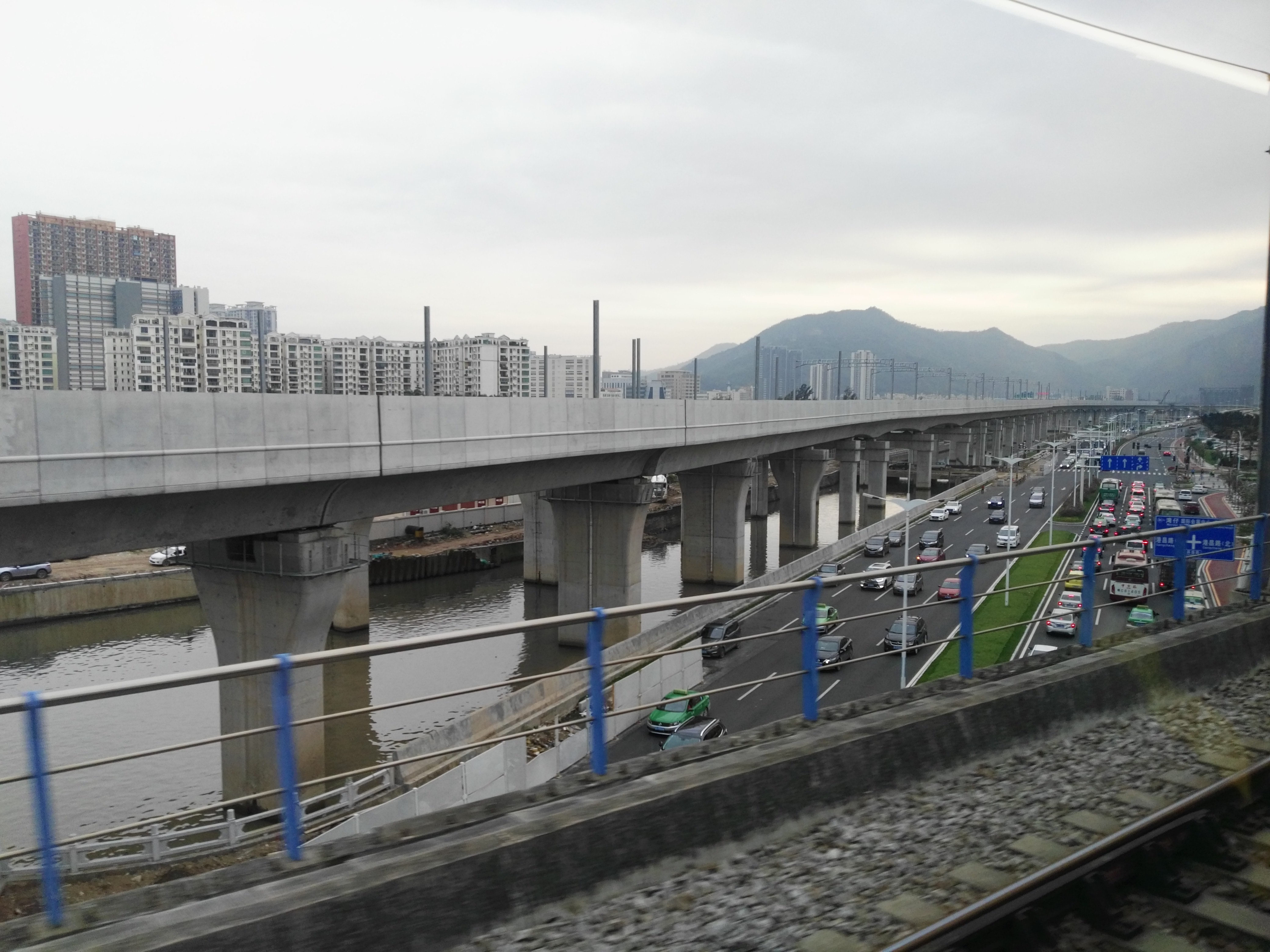 Zhuhai to Chimelong railway track 中文（香港）: 珠海往長隆列車軌道